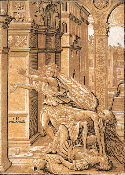 Lovers Surprised by Death. Chiaroscuro woodcut, 8 3/8 x 6 in. (21.3 x 15.2 cm). State iii/iiib.